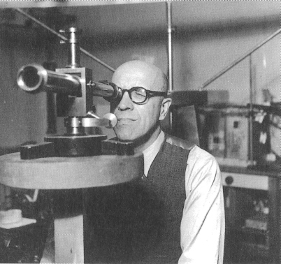 Photograph of the Finnish physicist Nils Fontell (1901–1980) using a differential calorimeter.